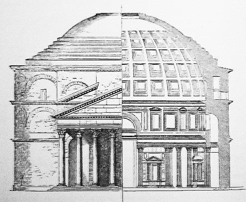 Pantheon of Rome, elevation